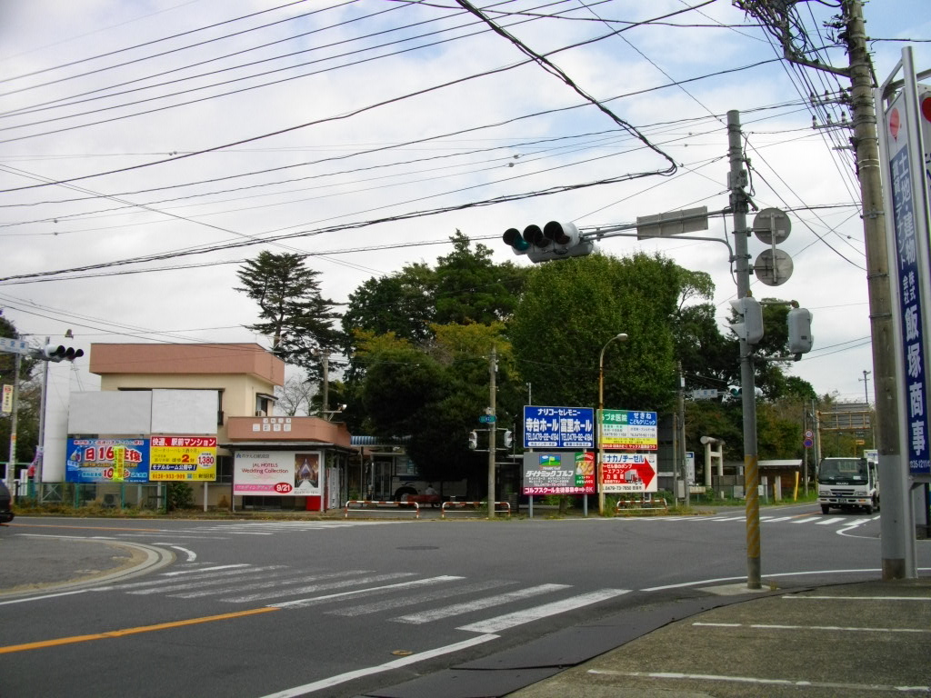 Sanrizuka Intersection